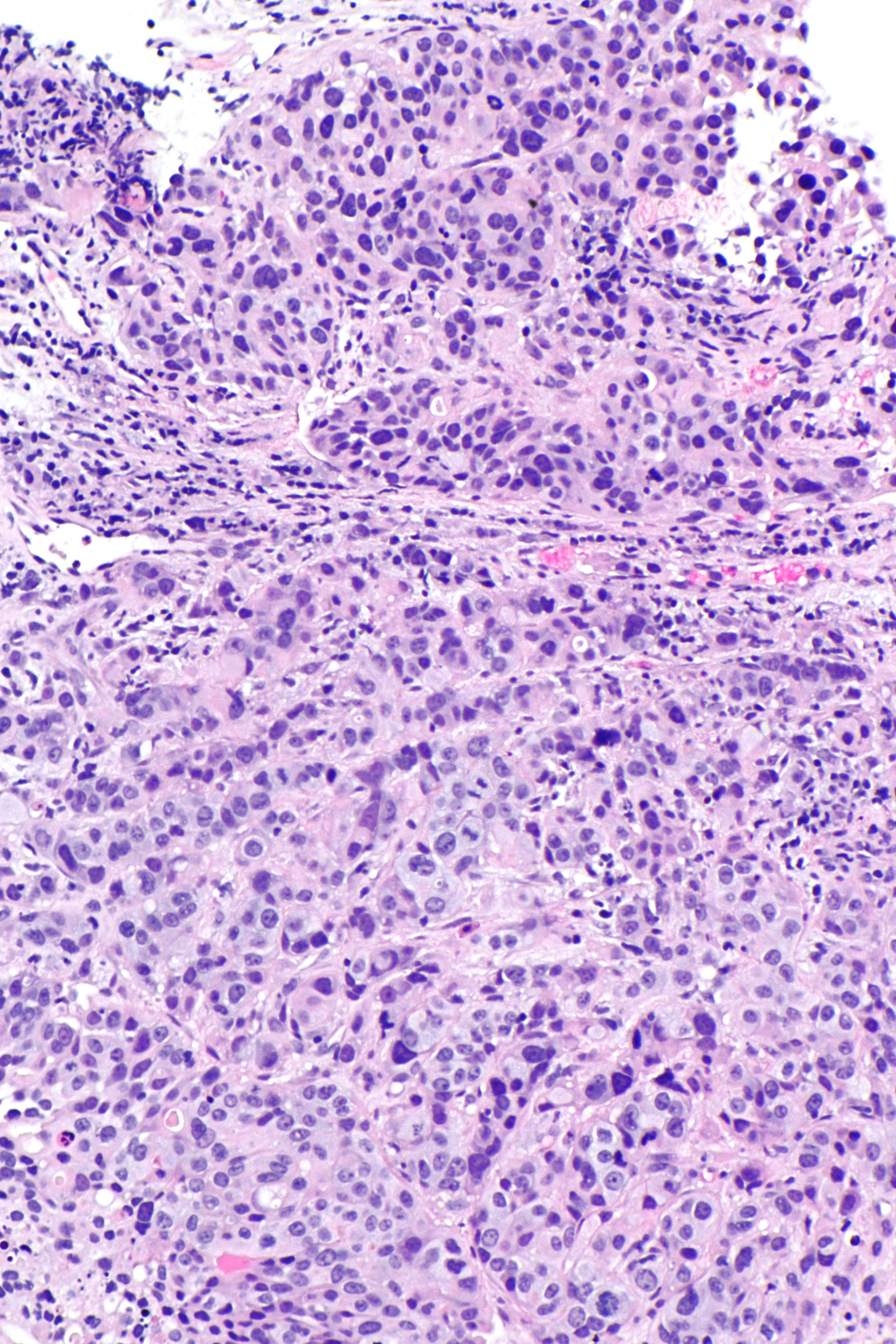 Micrograph showing urothelial carcinoma. Core biopsy. H&E stain. Related images UCC - low mag. UCC - intermed. mag. UCC - high mag. UCC - very high mag. UCC - intermed. mag. UCC - high mag. UCC - low mag. UCC - intermed. mag. UCC - high mag. UCC - intermed. mag. UCC - high mag. UCC - very high mag. UCC - very high mag.